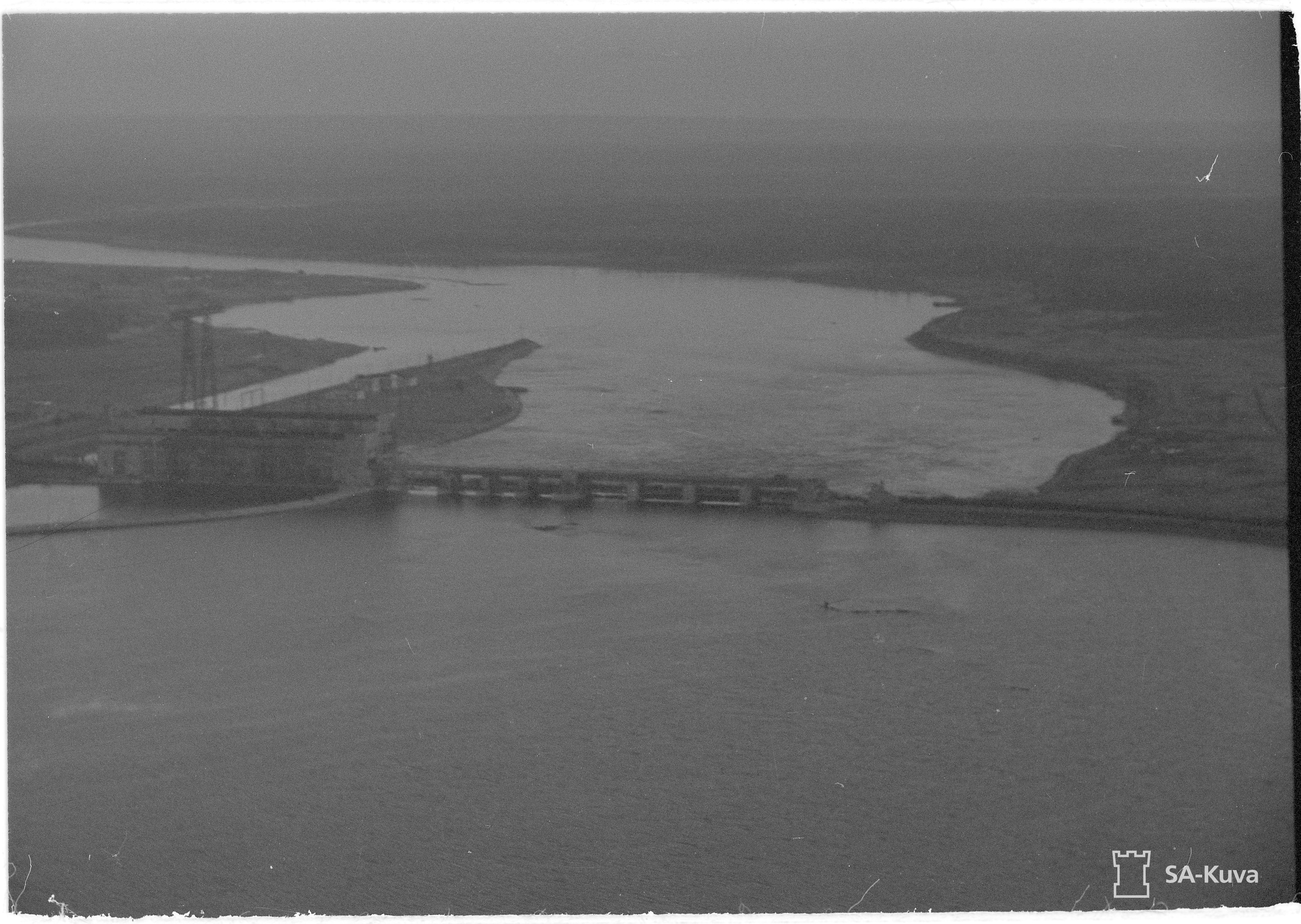 Aerial view of Svir Hydroelectric Station. (nowdays Lower Svir Hydroelectric Station)